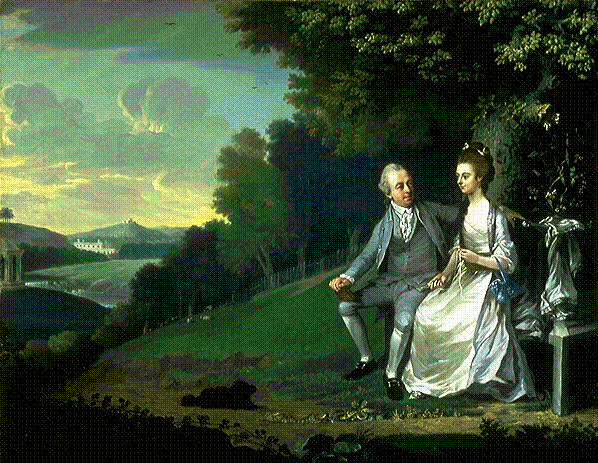 The lady portrayed is likely to be not Lady Dashwood who died in 1769, but Frances Barry, Dashwood's mistress with whom he lived after the death of his wife.